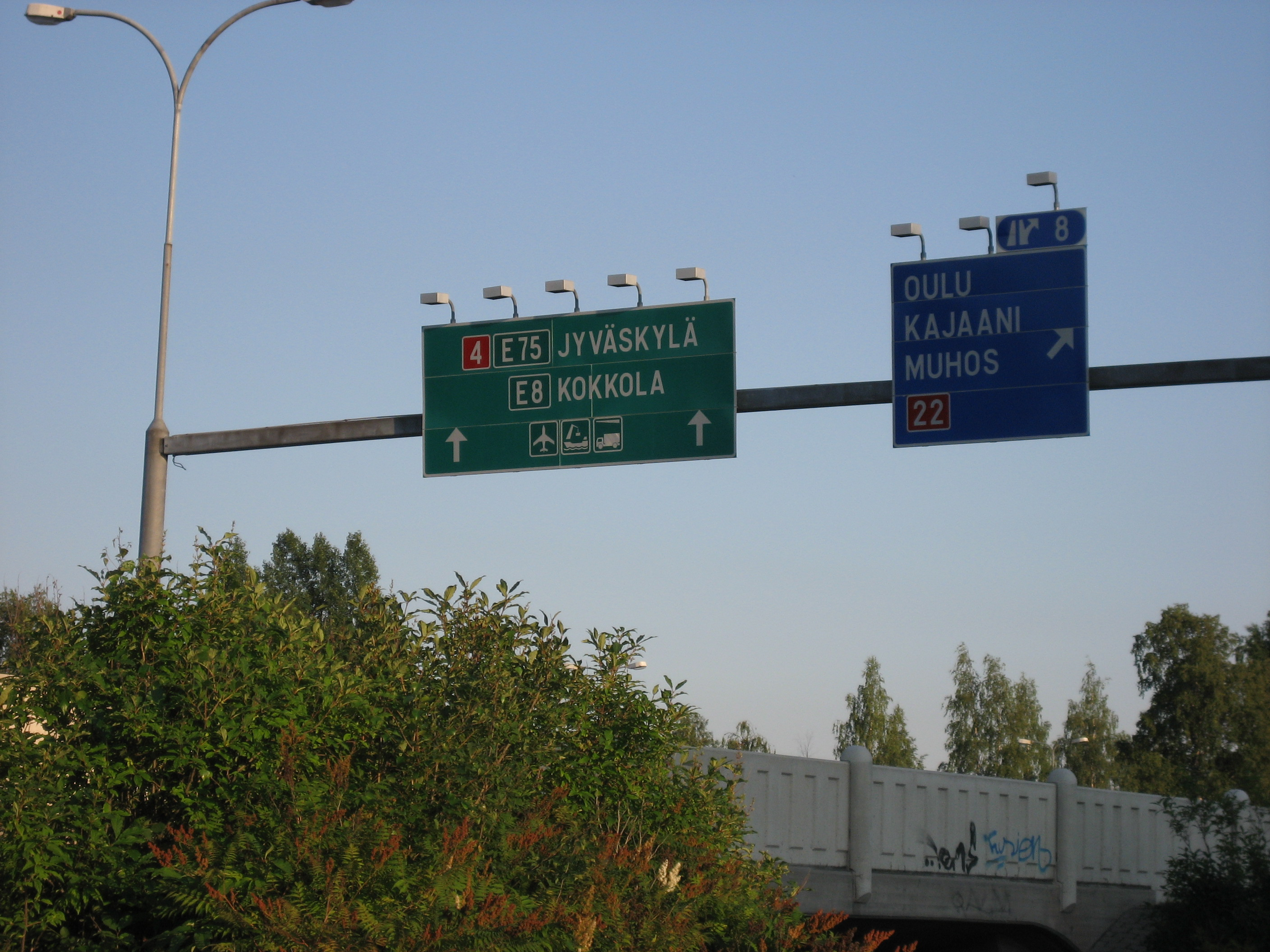 Finnish traffic sign no. 631. Advance direction sign (above the lane). Intersection of the National road 4 (E8/E75) and the National road 22 in Kontinkangas, Oulu, Finland. The picture has been taken from Ylioppilaantie street.